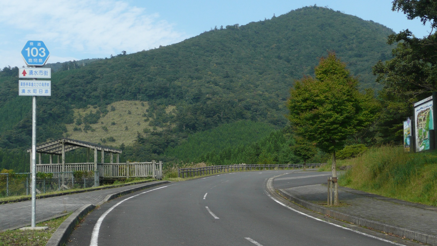 Kagoshima Prefectural Road No.103 Kurino Station-Ebino Plateau Line (Yusui Town, Kagoshima, Japan)